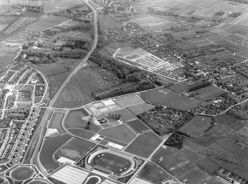 Luchtopname uit het zuiden van de Rijksweg 2 ten noorden van de Geusseltrotonde in Maastricht in 1963. Linksonder de nieuwe woonwijk Nazareth. Midden onder het stadion De Geusselt (MVV) en het omliggende sportpark, destijds gedeeltelijk in de gemeente Amby. Verder naar het noorden: Meerssen en Ulestraten. Fotocollectie RHCL Maastricht, GAM 8878.